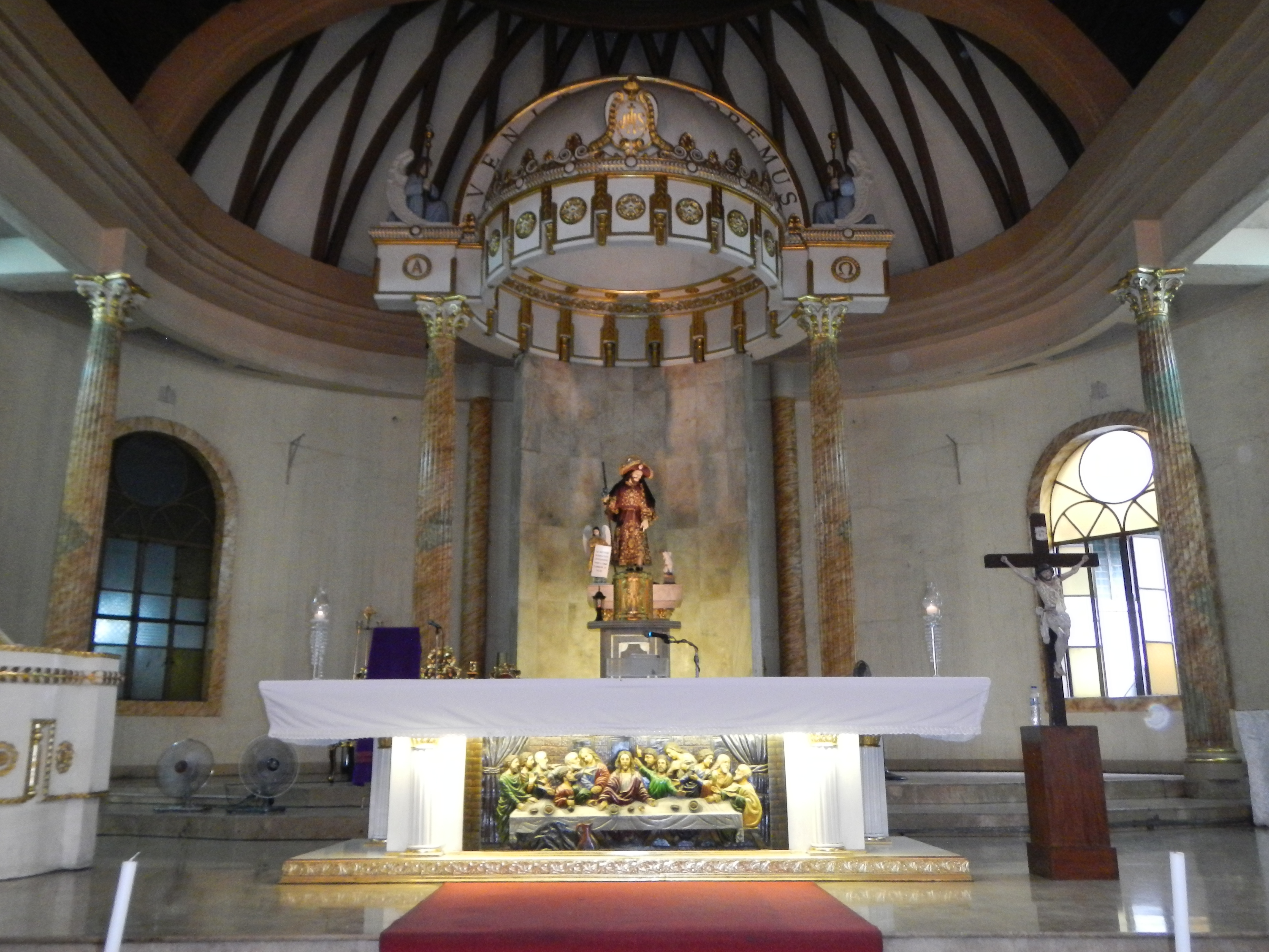 1815 Caloocan Cathedral[1] [2]San Roque Cathedral, A. Mabini St., Caloocan City The Kalookan Cathedral known canonically as San Roque Cathedral, is the cathedral of the Roman Catholic Diocese of Kalookan, and is located near the intersection of 10th Avenue and A. Mabini Street, in Caloocan City, Philippines. The church is beside La Consolacion College, and in the far front of the church is the City Hall of Caloocan.[3](1815 - APRIL 8 2015) [4]Roman Catholic Diocese of Kalookan Vicariate of San Roque The present Apostolic Administrator is Bishop Francisco M. De Leon, D.D., former rector was the Most Reverend Deogracias S. Iñiguez, Jr., DD., who also served as the bishop of the diocese. parochial vicar is the 'Reverend Elpidio "Jun" Erlano, Jr. Monsignor Boanerges "Ben" A. Lechuga was the preceding previous parish priest, who served from 1980 to 2008.[5][6]